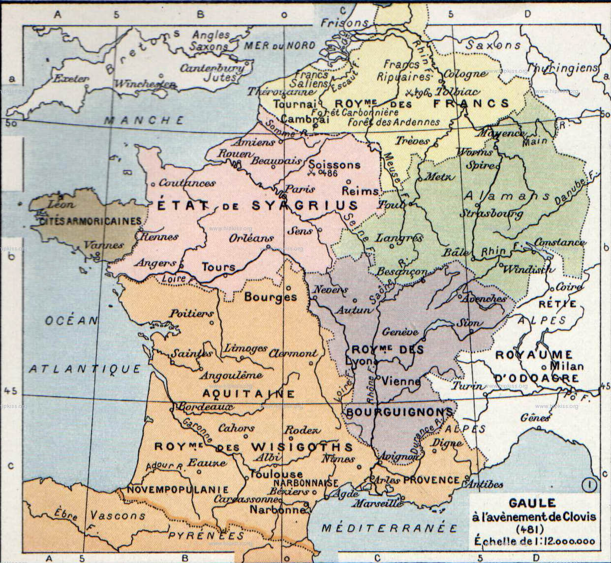 The map comes from Vidal-Lablache, Atlas général d'histoire et de géographie (1894).